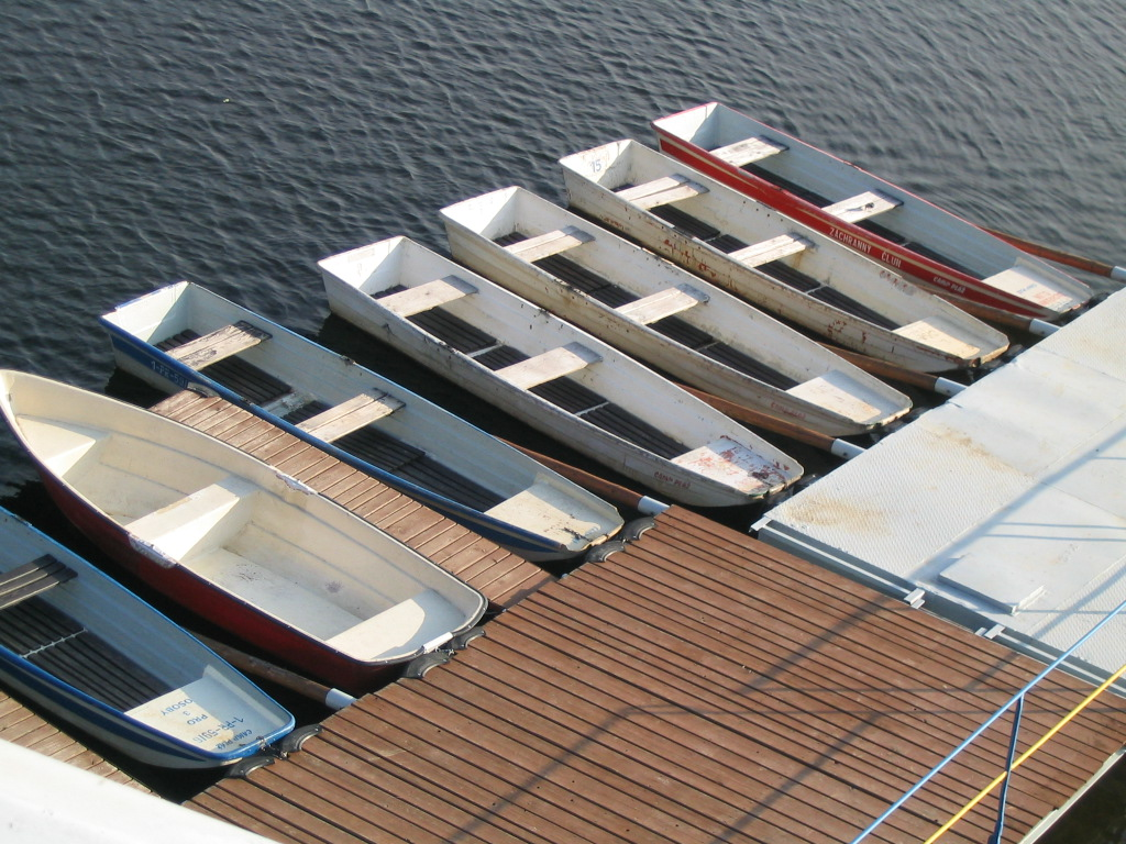 Flat-bottomed boats.